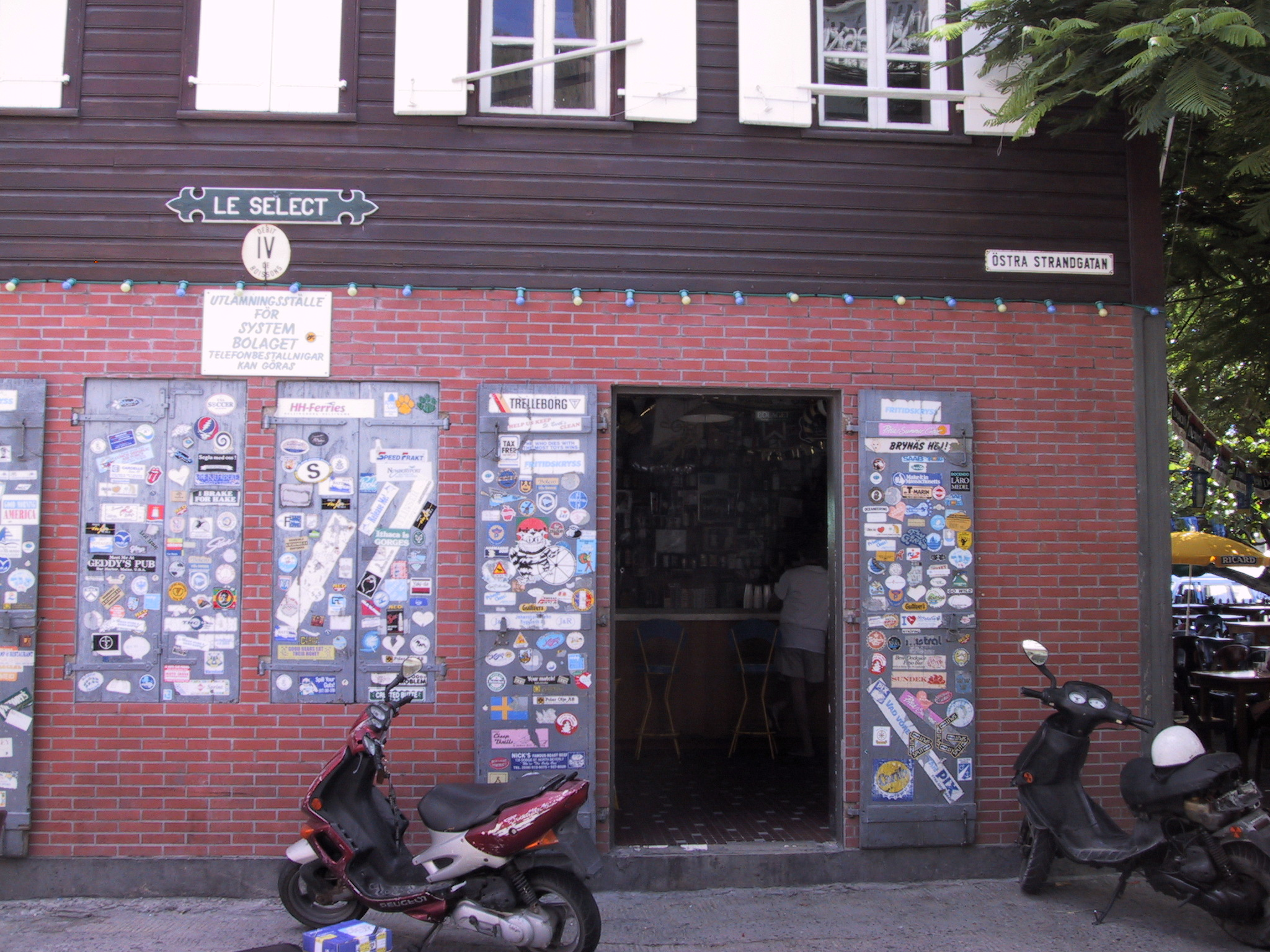 Gustavia, Saint-Barthélemy